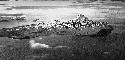 Aerial photograph of Kanaga Island, Aleutian Islands, Alaska